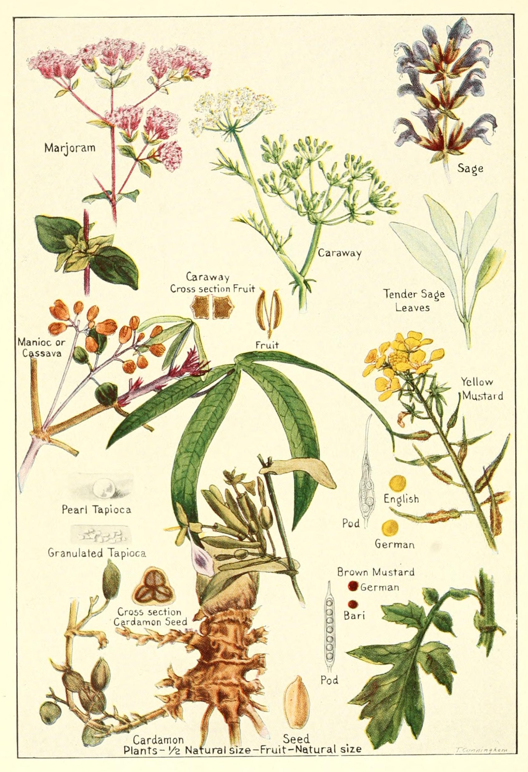 Shows a variety of spices: majoram, caraway, sage, casava, mustard, cardamom, tapioca with flowers and leaves.